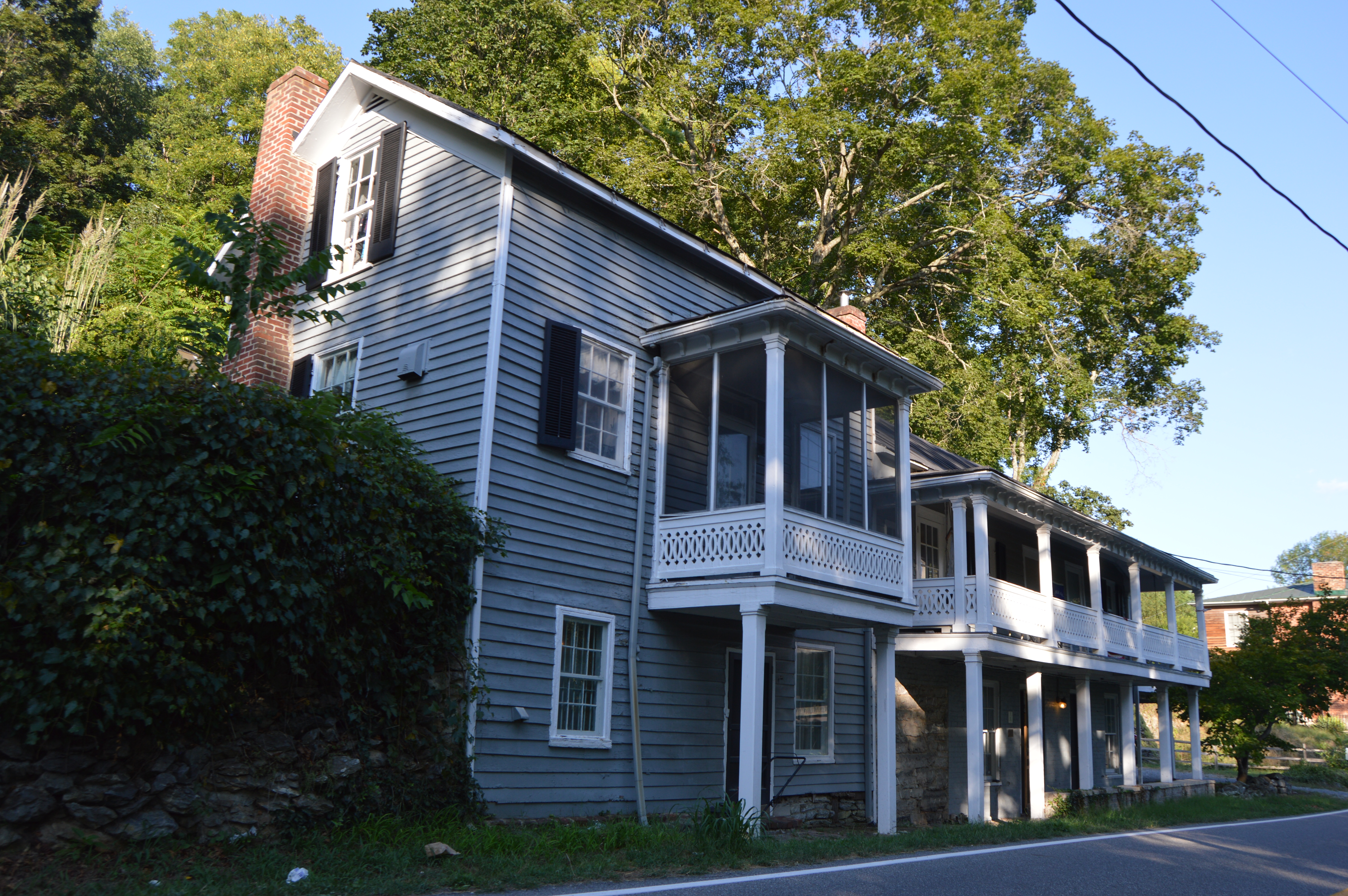 Western end and front of the Tankersley Tavern, located on Furrs Mill Road west of U.S. Route 11, north of Lexington, in rural Rockbridge County, Virginia, United States. Built in 1835, it is listed on the National Register of Historic Places.